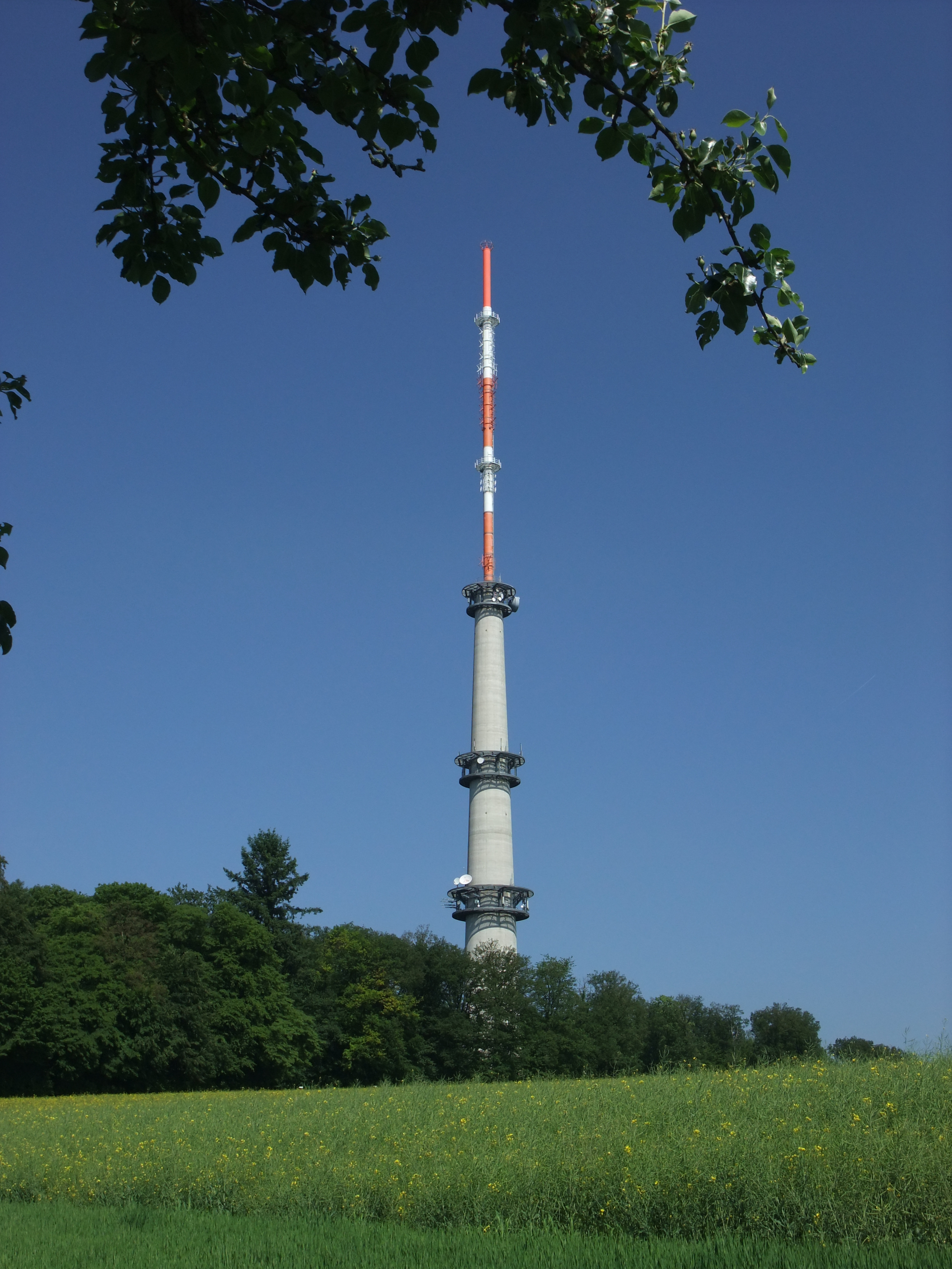 Bad Mergentheim, Löffelstelzen, broadcasting tower SWR